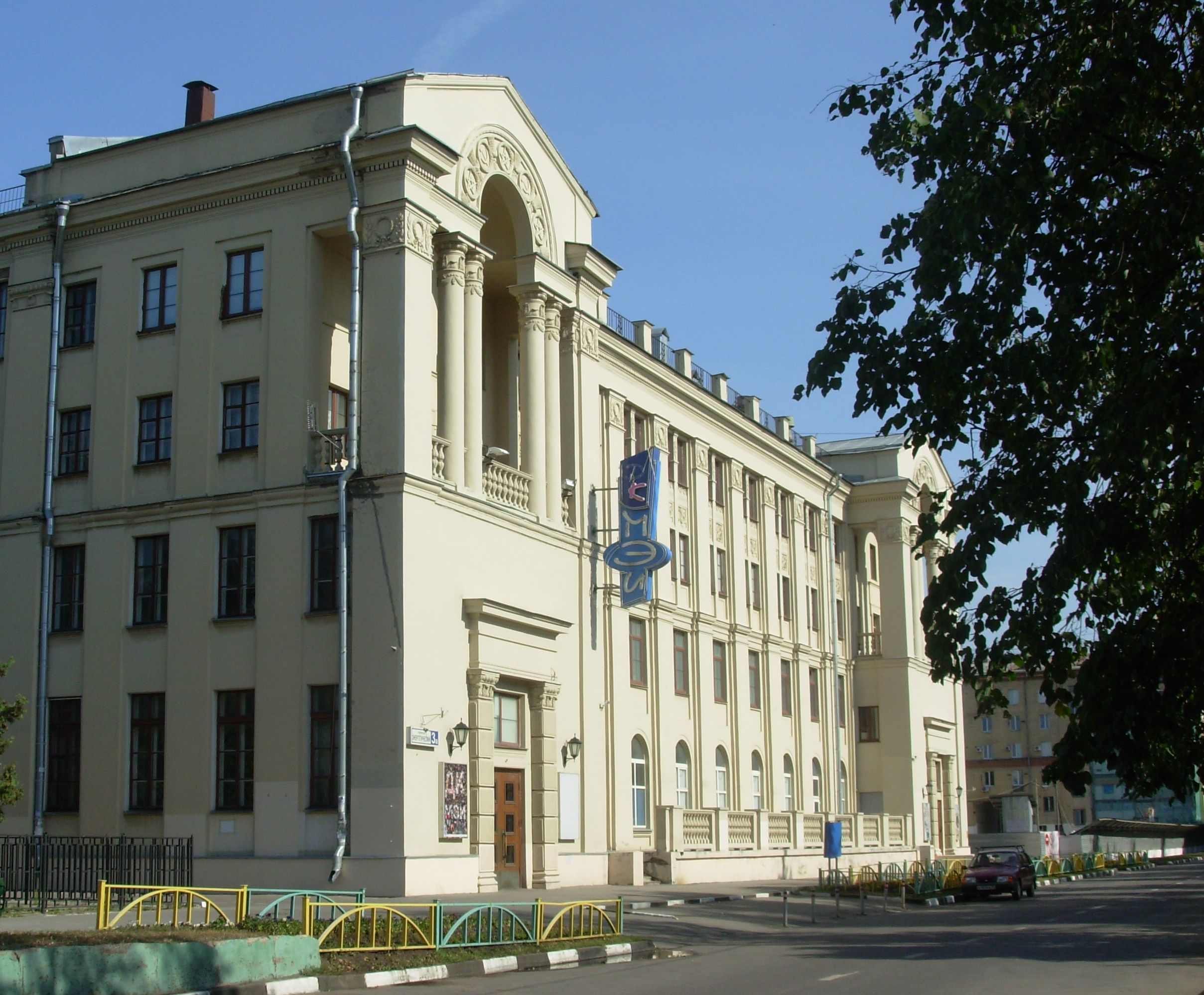 Moscow Power Engineering Institute Russia